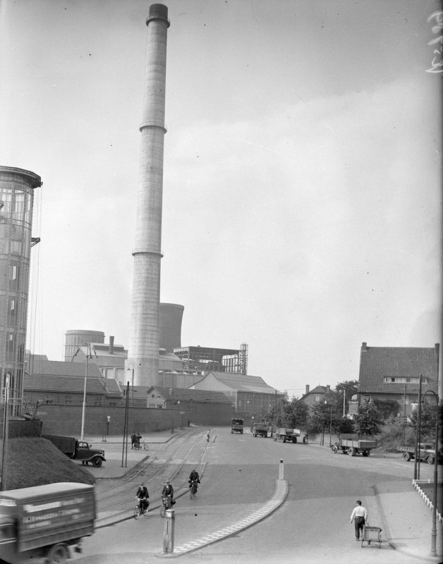 Chimney Lange Jan, Heerlen.